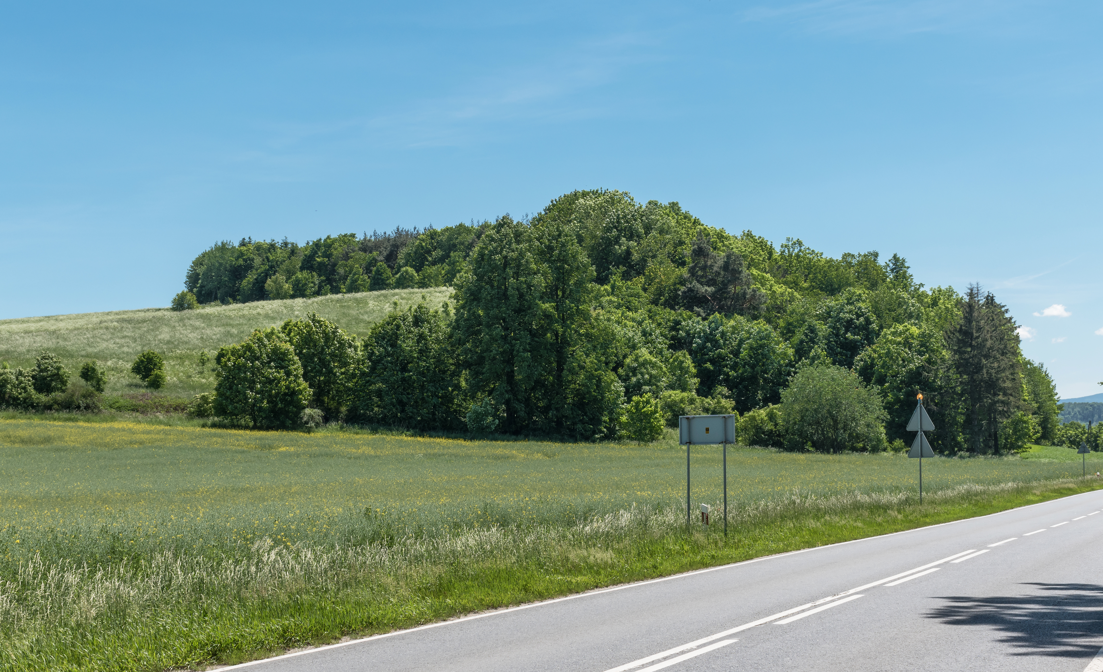 Sośnina, Wzgórza Rogówki, Sudetes